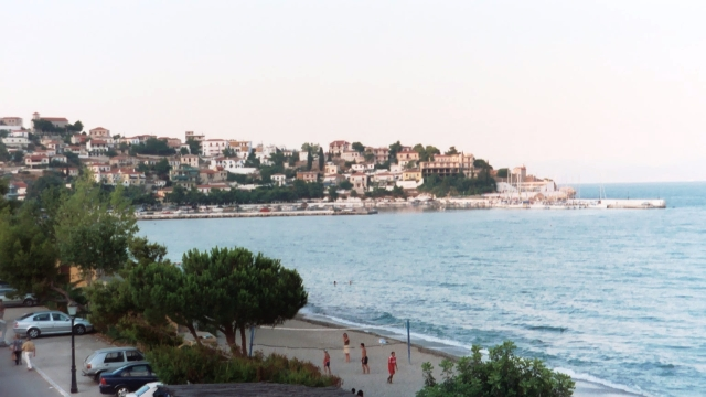 Astros, Greece Taken by Joseph Brennan, Summer 2002